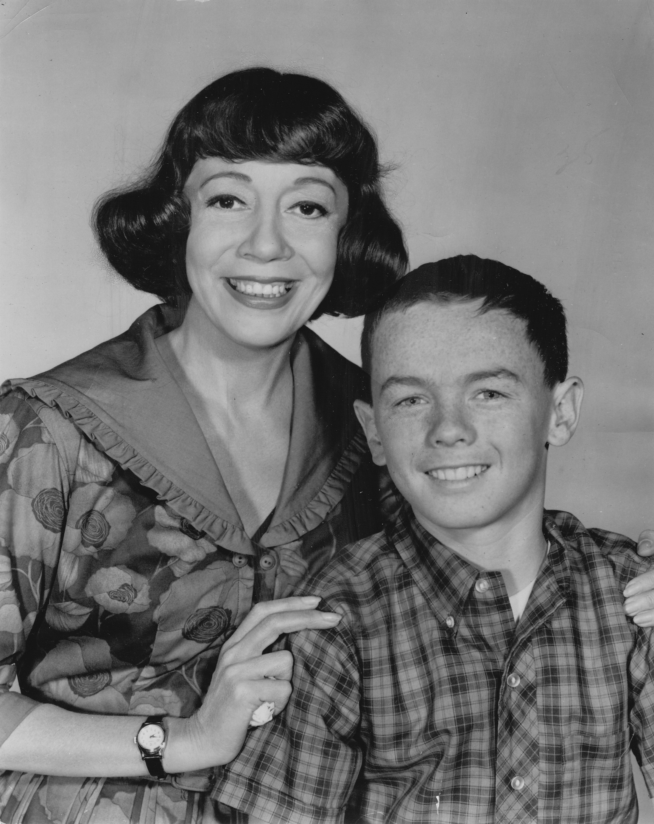 Publicity photo of Imogene Coca and Billy Booth promoting the episode "Aunt Grindl" for the television series Grindl.